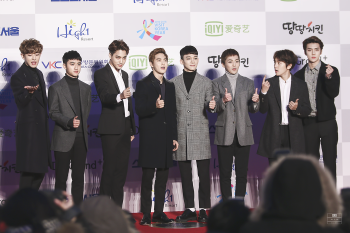 EXO at Seoul Gayo Daesang at January 14, 2016.